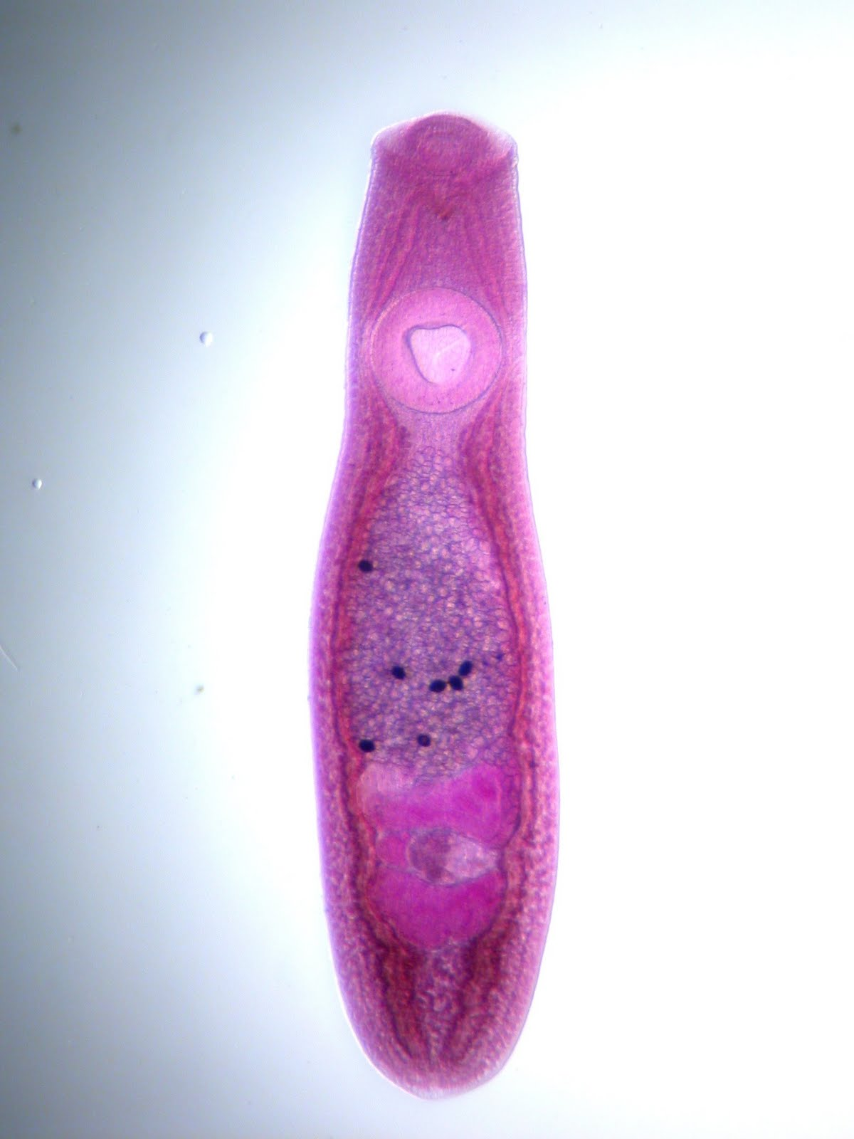 photo of clinostimum marginatum